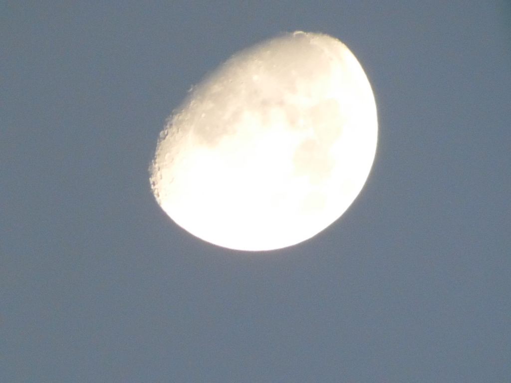 বাংলাদেশ থেকে চন্দ্রের ছবি